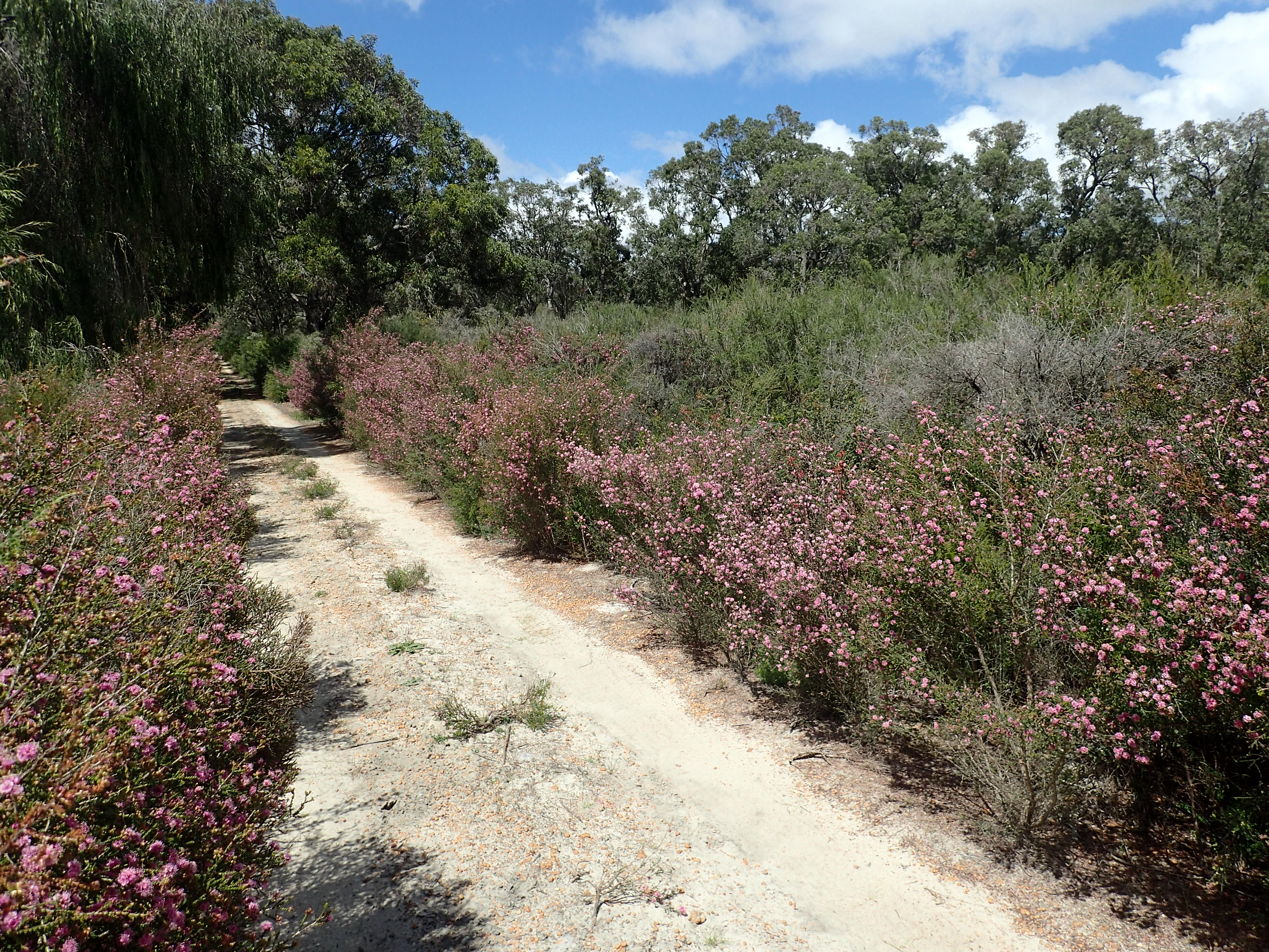 Kunzea rostrata on the eastern edge of Yelverton National Park